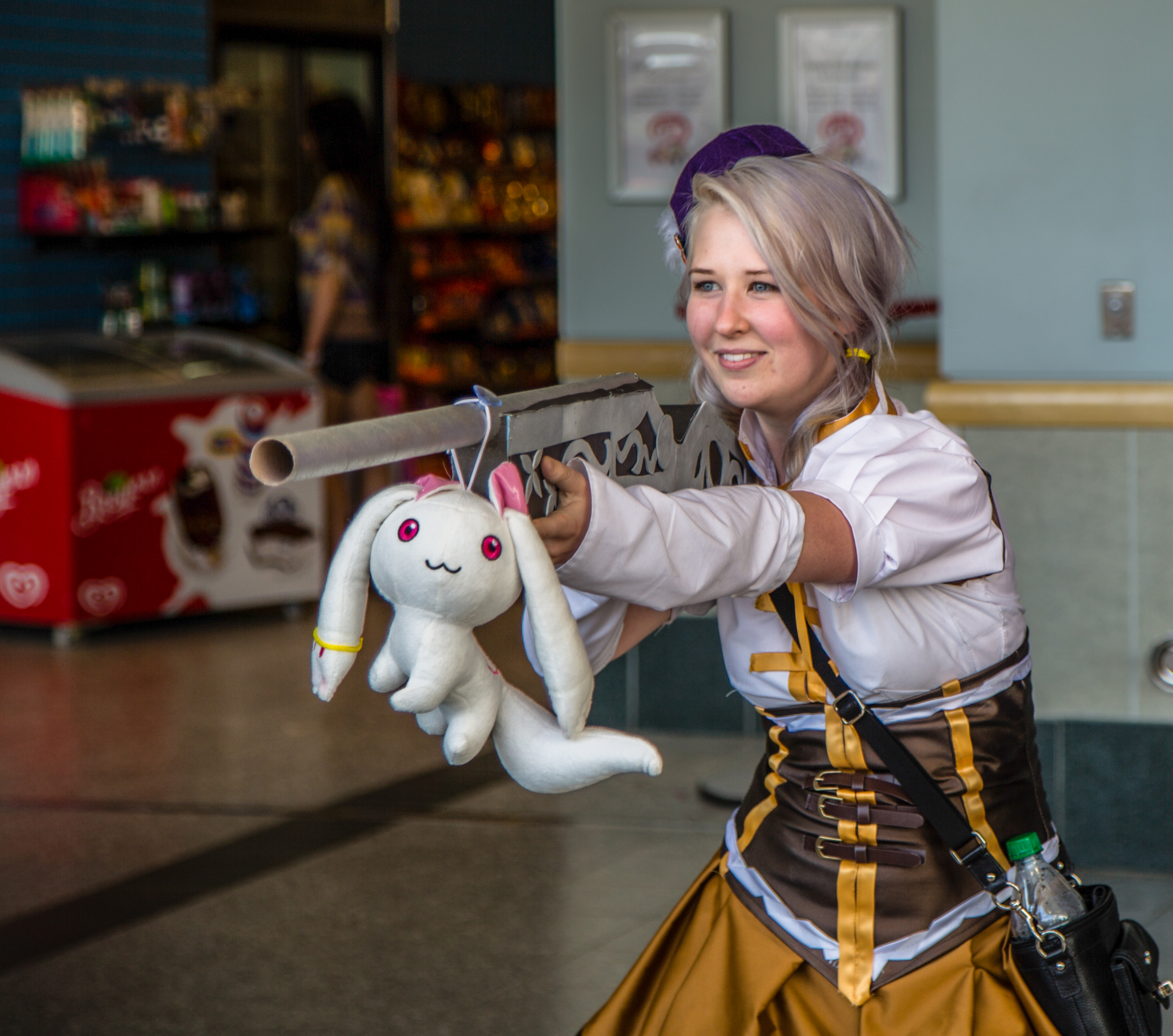 Edmonton Animethon 20 - 2013